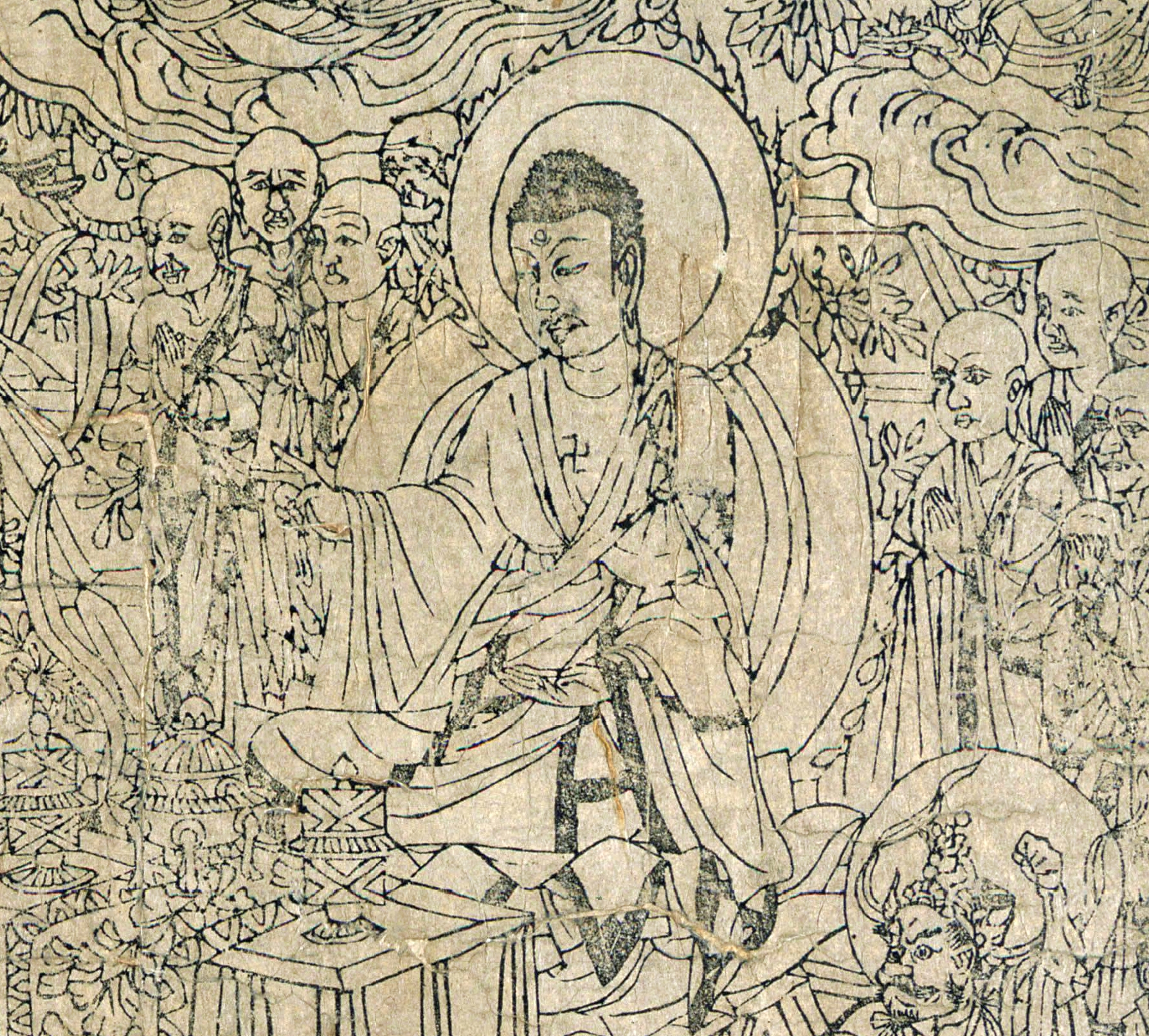 Detail of the Frontispiece, Diamond Sutra from Cave 17, Dunhuang, ink on paper British Library Or.8210/ P.2 (the oldest, dated printed book, 868 CE)